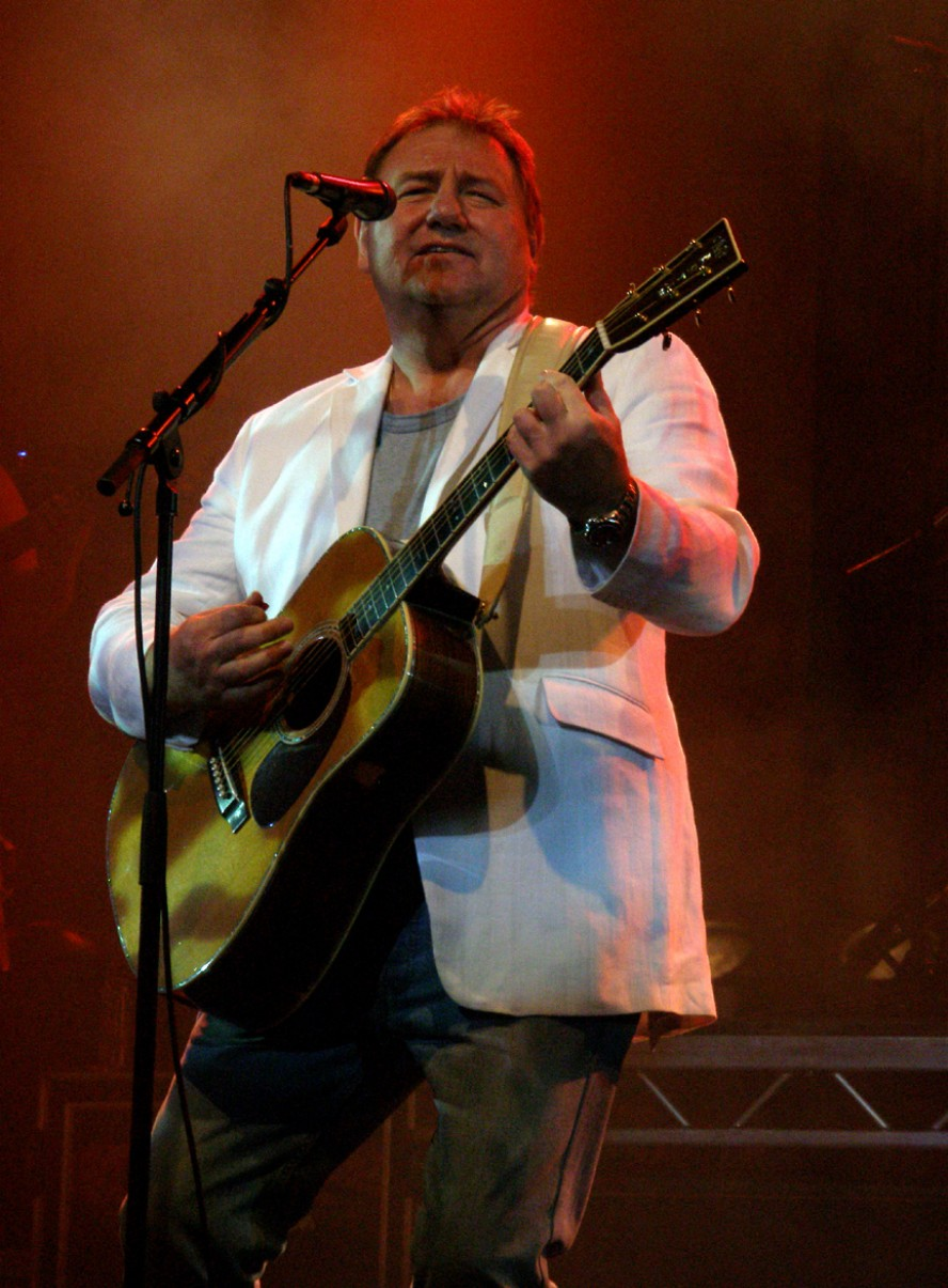 Greg Lake on stage in Llandano, Wales - 2005